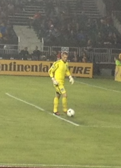 Evan Newton playing for San Jose Earthquakes in a friendly against Swansea City AFC of the EPL